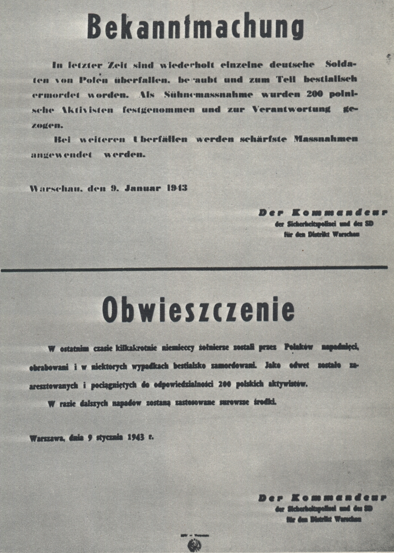 German poster in occupied Poland (dated 9th January 1943), signed by Commandant of SD and Sicherheitspolizei in Warsaw – SS-Obersturmbannführer Ludwig Hahn, announcing that 200 “Polish activists” were arrested in retaliation of actions of Polish resistance.